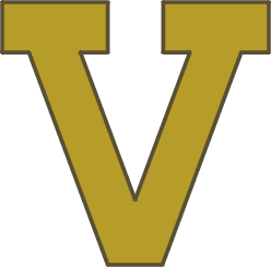 V device for US military awards as valor device